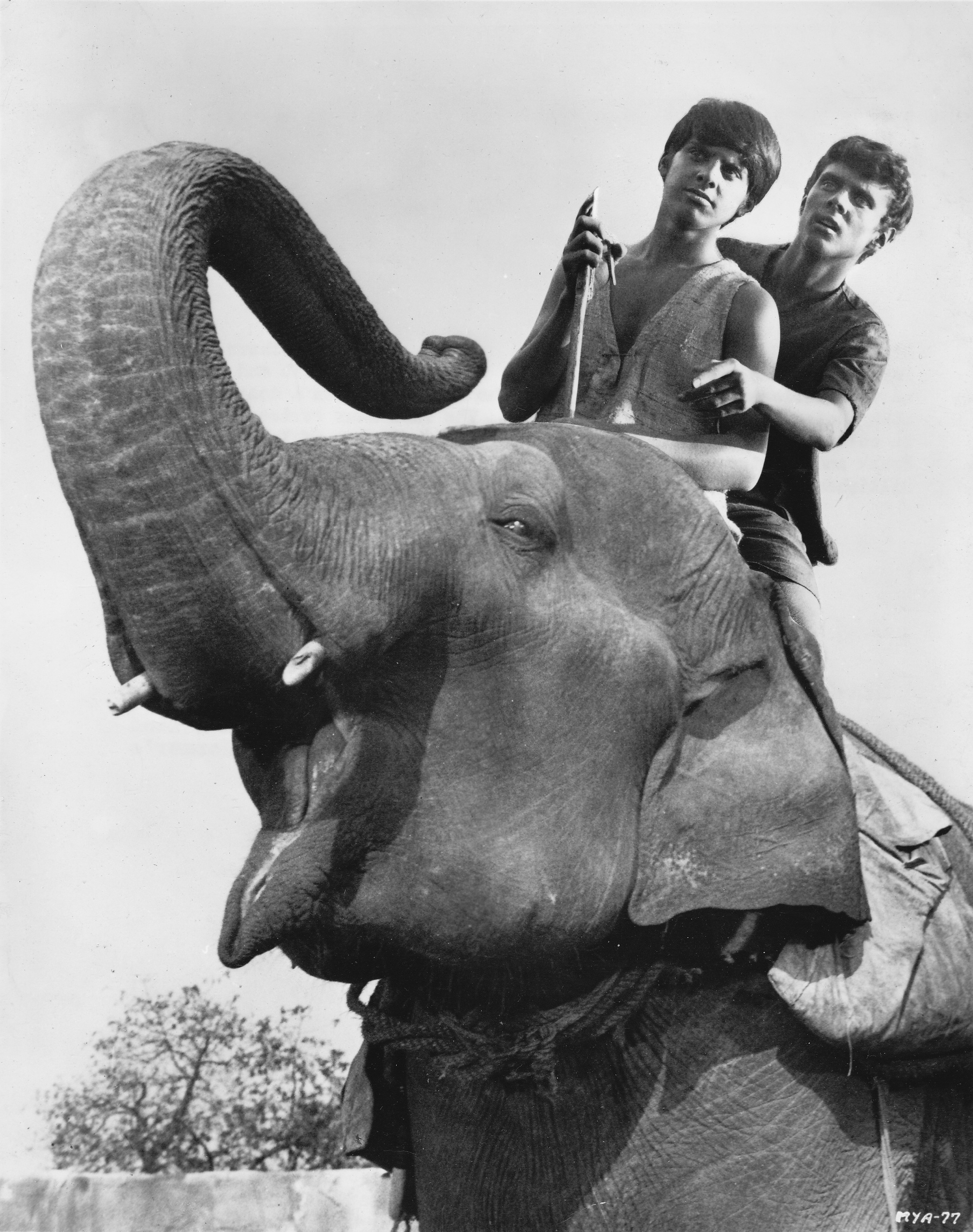 Publicity photo of teen actors Jay North and Sajid Khan promoting their roles on the television series Maya.